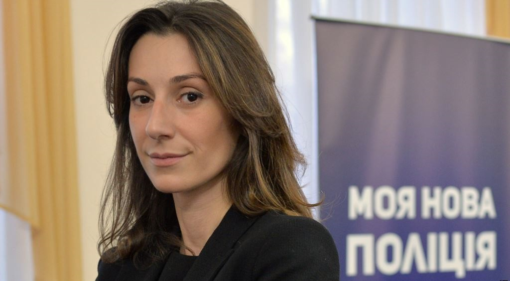 Eka Zguladze, Ukrainian deputy minister of interior